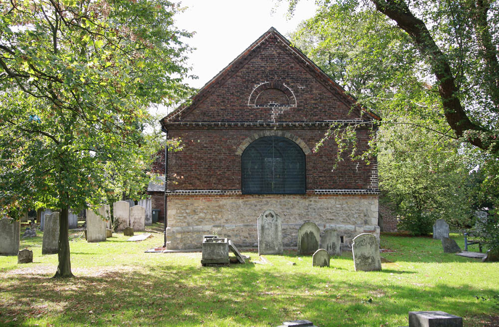 Parish church of St Mary the Virgin, Little Ilford, Newham, London E12 (formerly Essex)